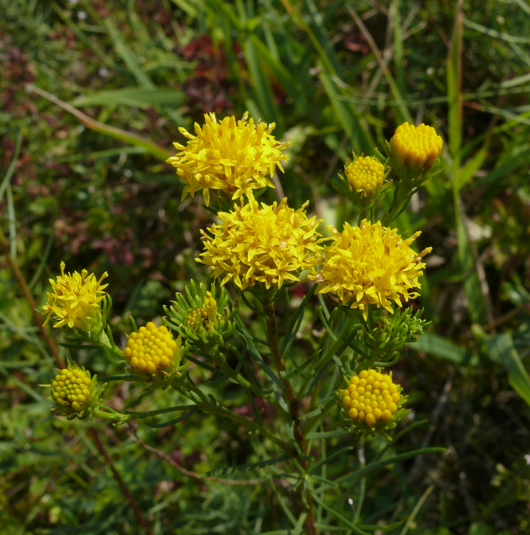 Crinitaria linosyris, Tauberland, Germany